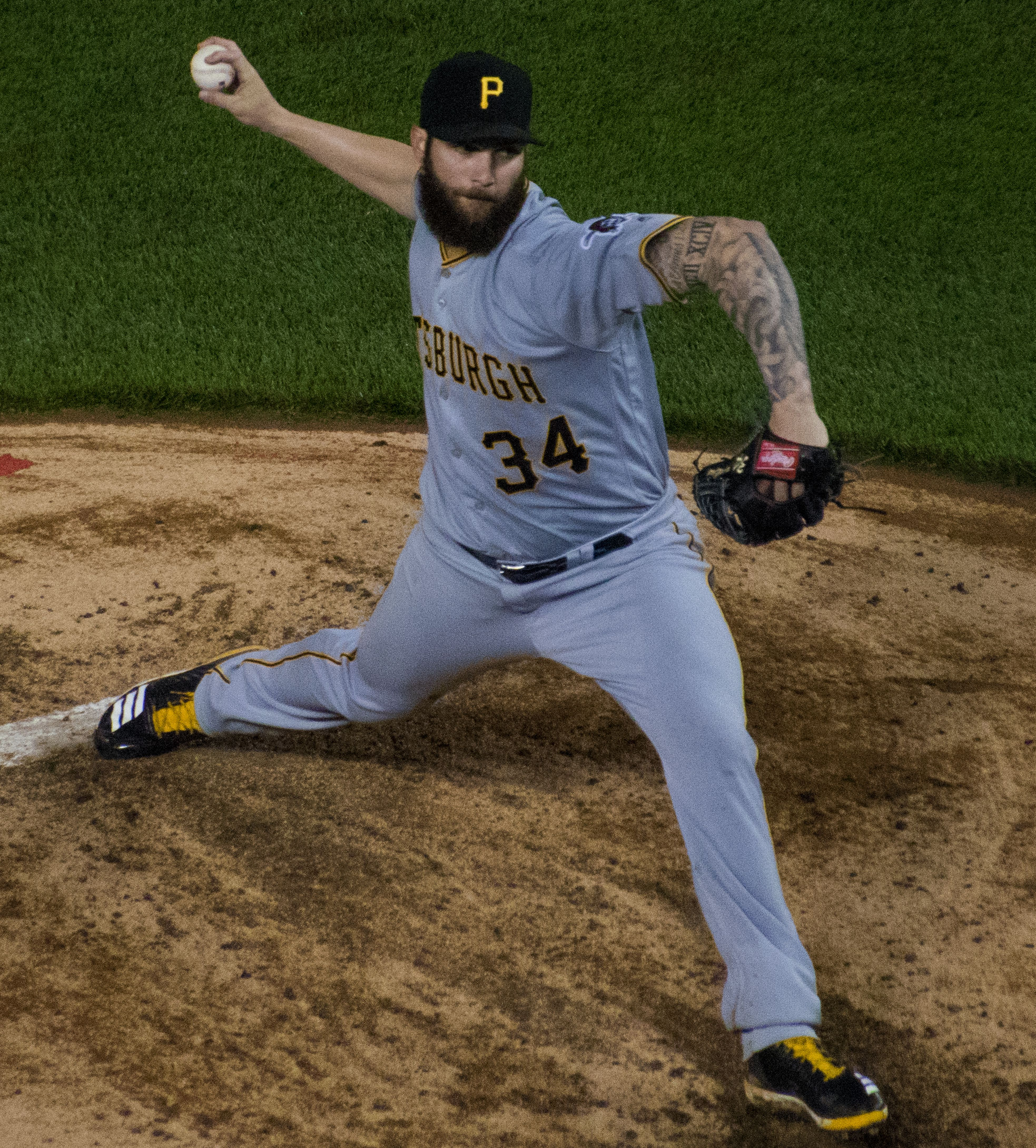 Trevor Williams